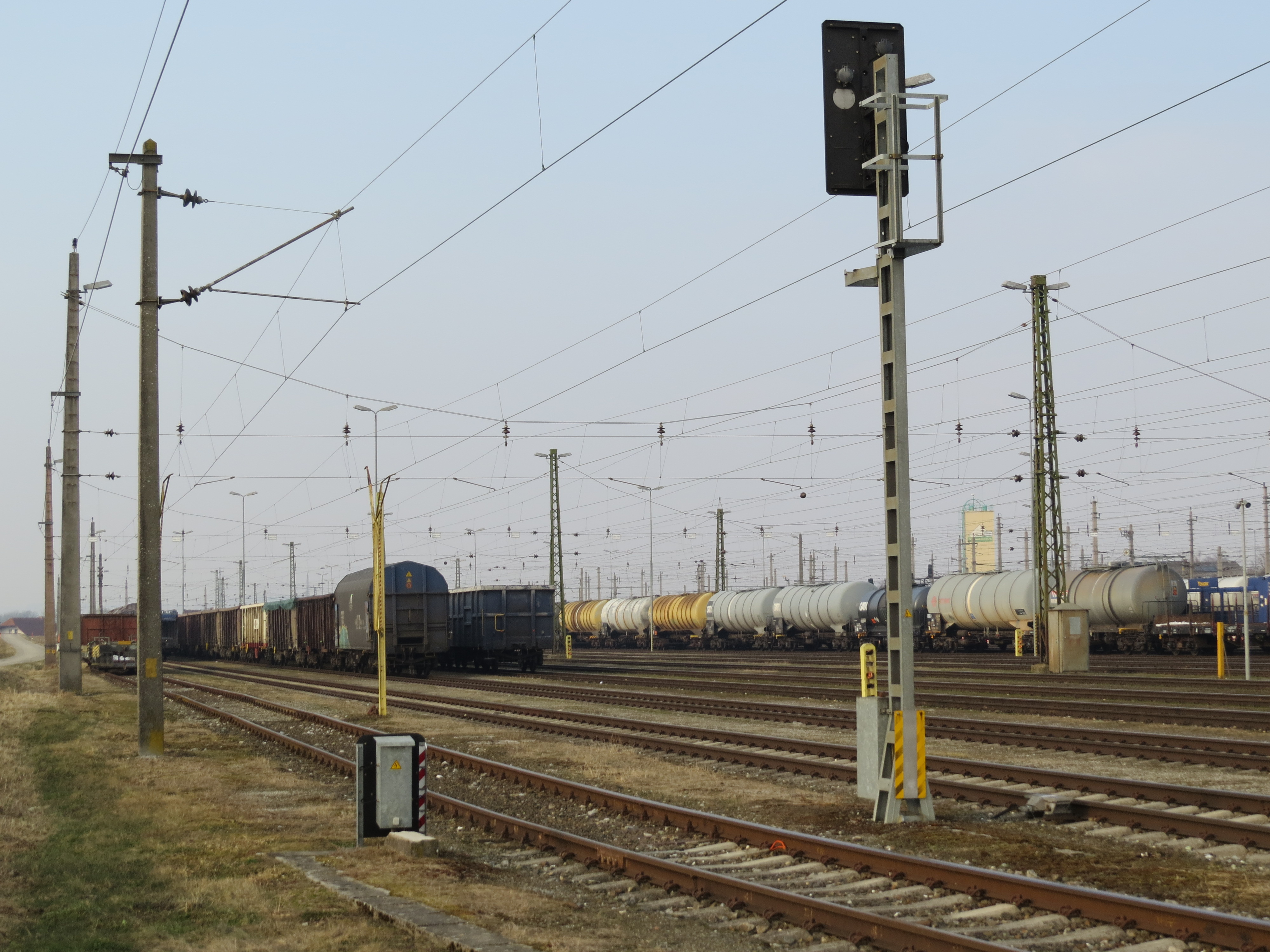 Freight wagons at Bahnhof St. Valentin